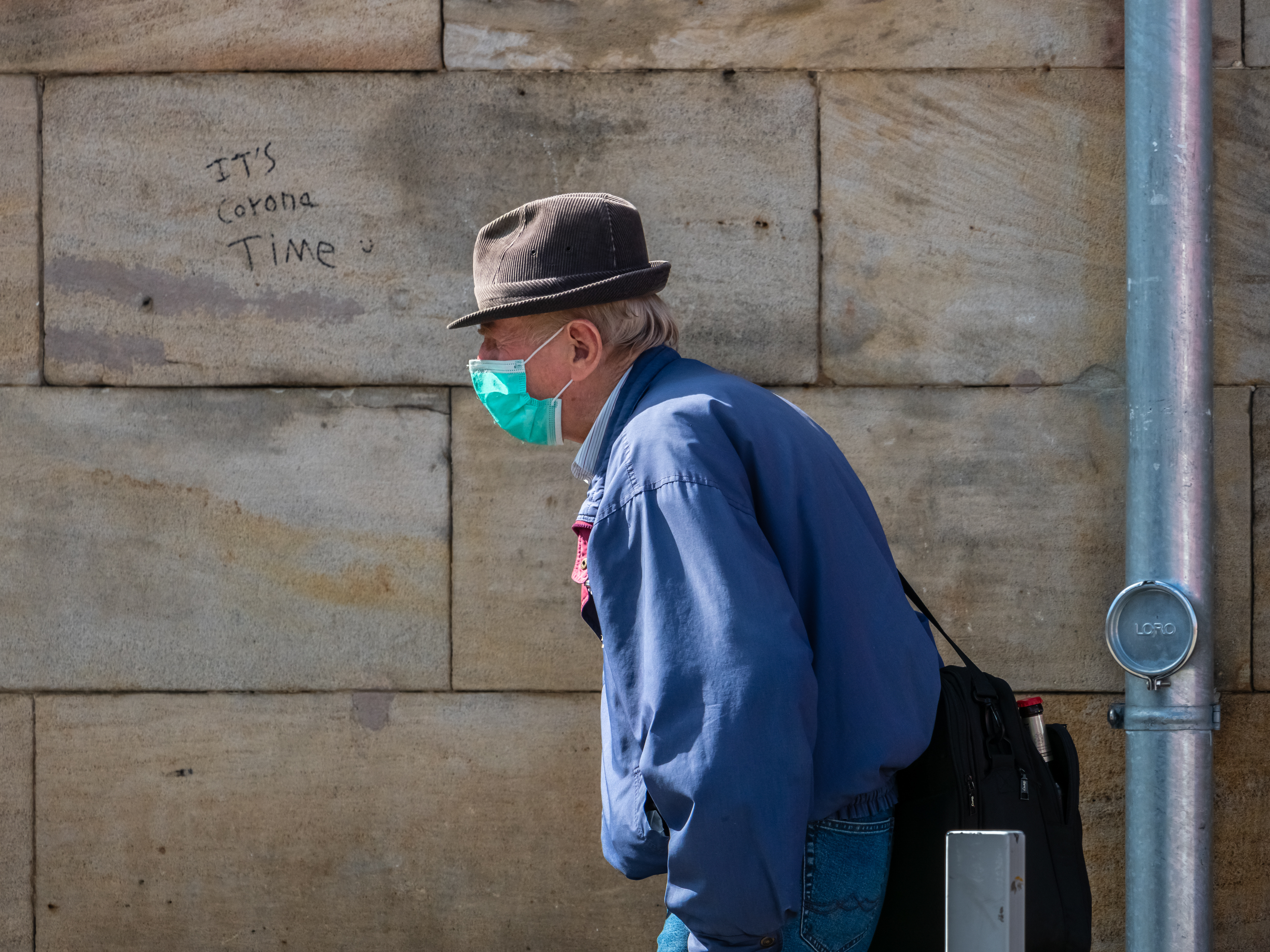 Man with prescribed protective mask on the occasion of the Corona Pandemic 2020